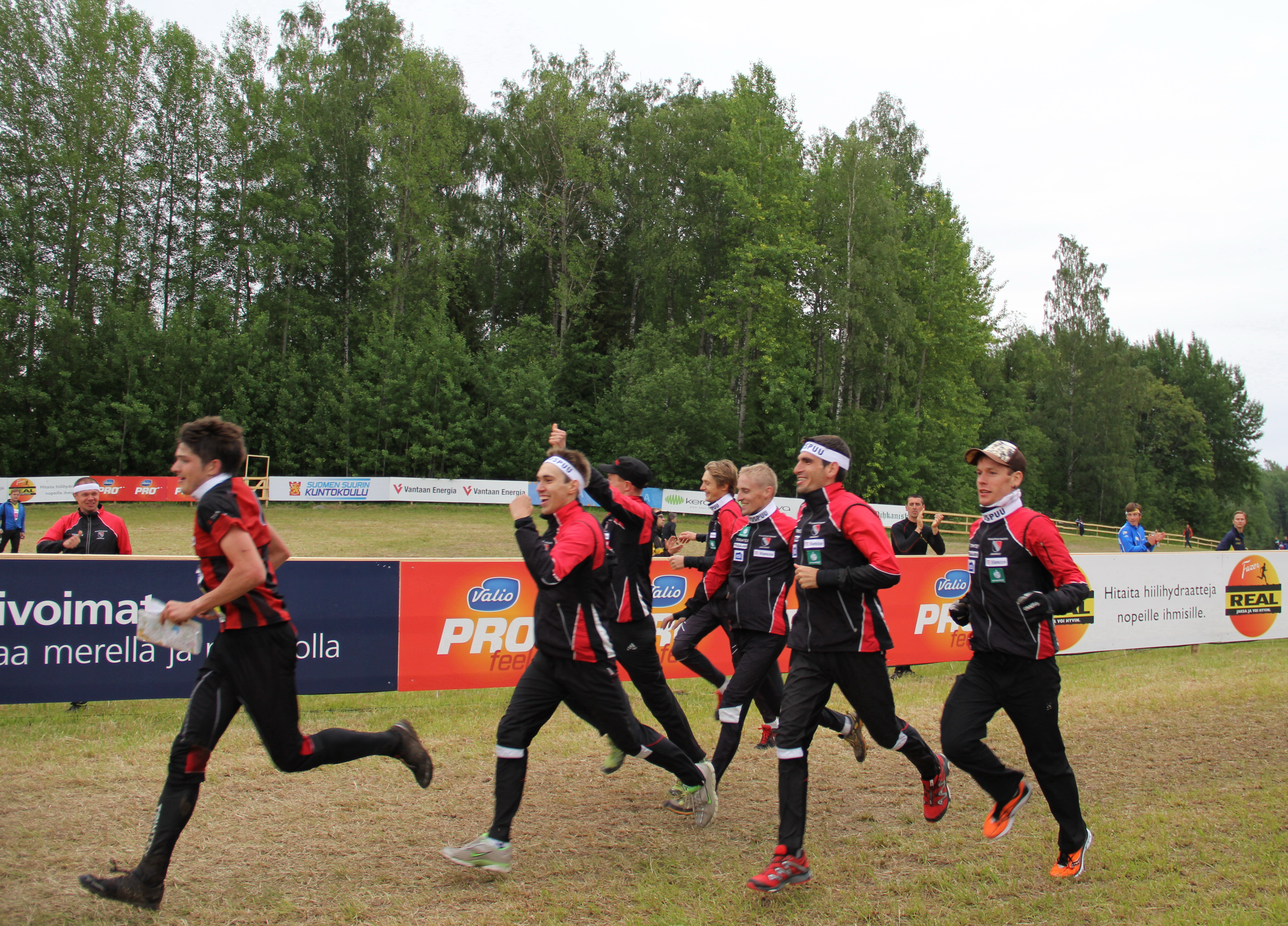 Kalevan Rasti team winning the Jukola Relay 2012 in Vantaa, Finland